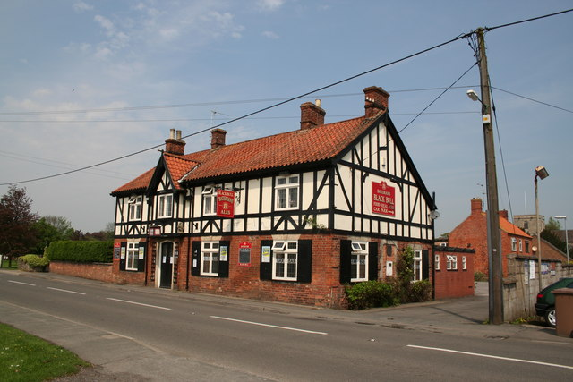 The Black Bull. The Black Bull Inn on Rectory Road has two carved stone monkeys either side of the main entrance, by stone carver Richard Winn who lodged here in 1871. His work can be seen around the village of Ruskington and his self-made tombstone can be found in a corner of the cemetery.